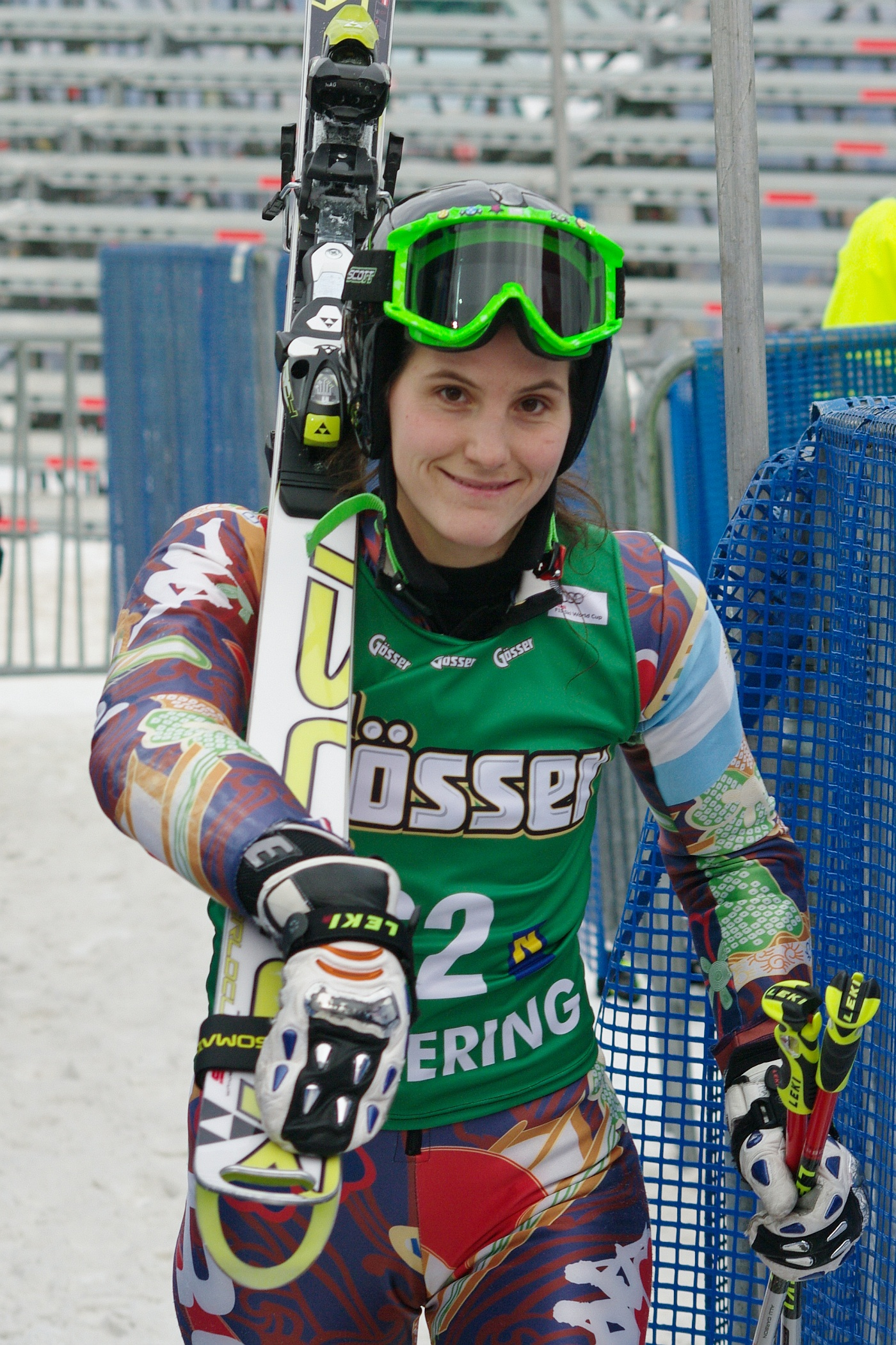 Argentinian alpine skier Macarena Simari Birkner after the first run of the Giant Slalom in Semmering (Austria) on 28 December 2010.